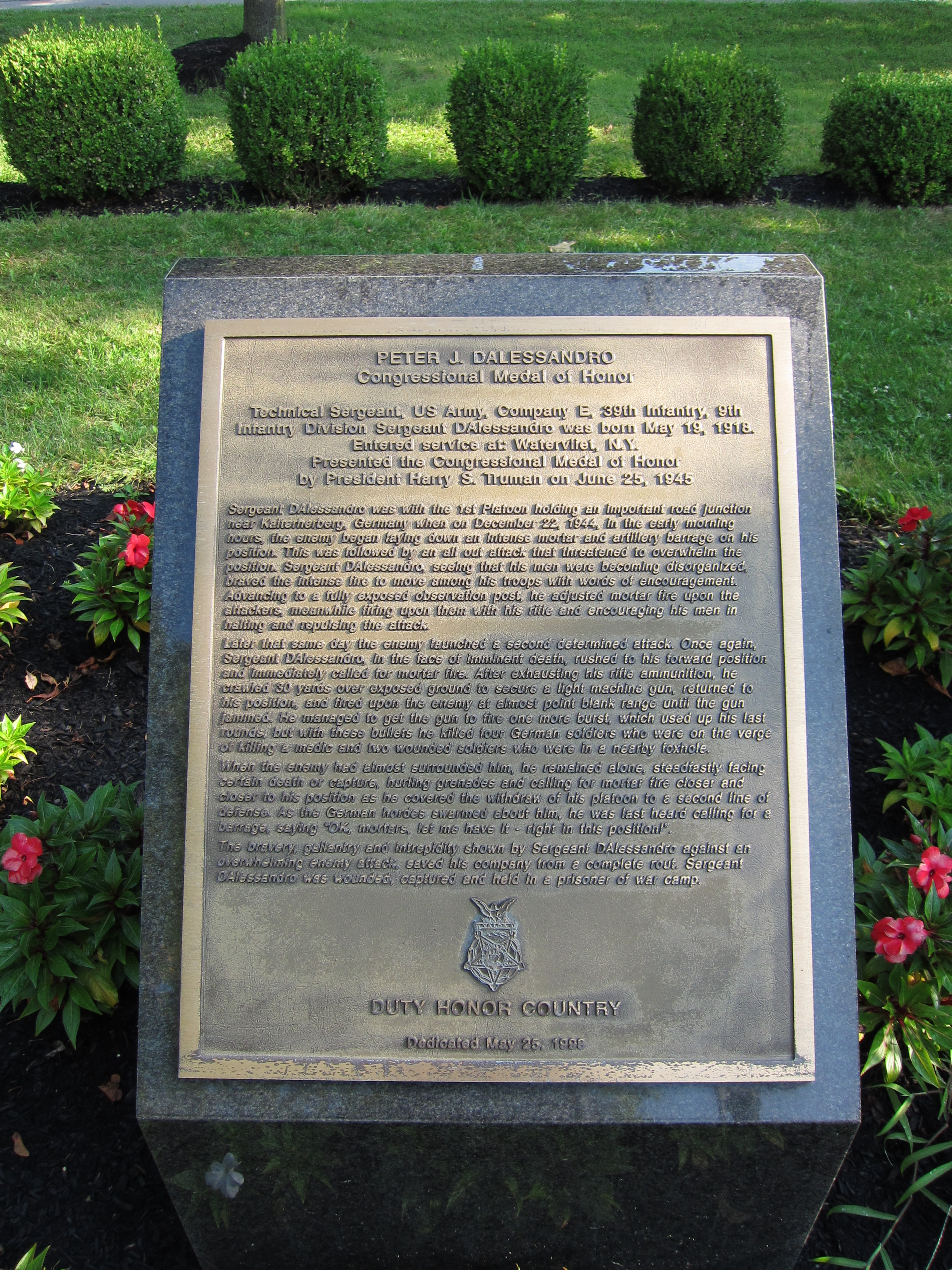 Peter J. Dalessondro memorial at Memorial Park at the corner of Second Avenue and Sixteenth Street in Watervliet, New York.